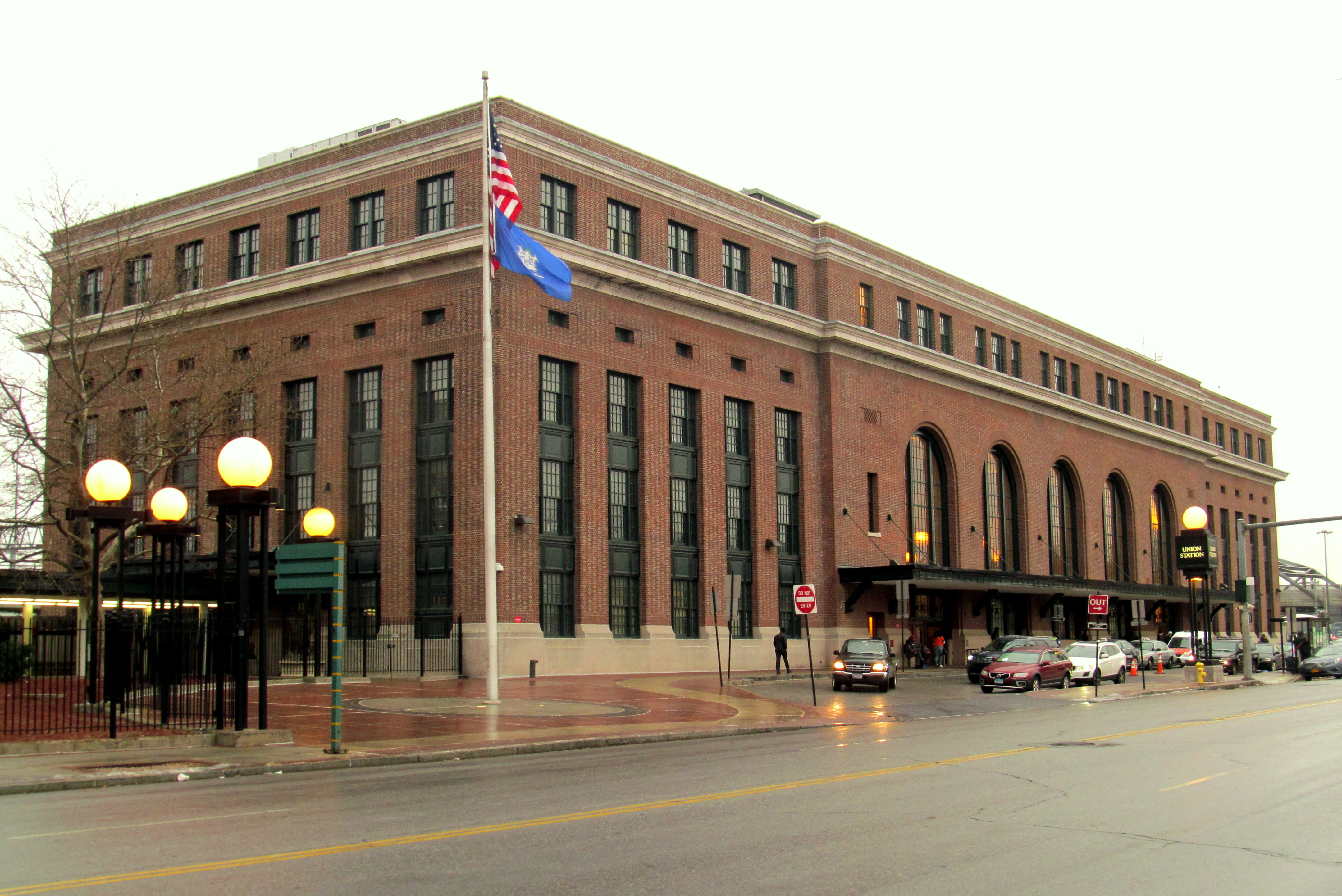 New Haven Union Station in December 2016